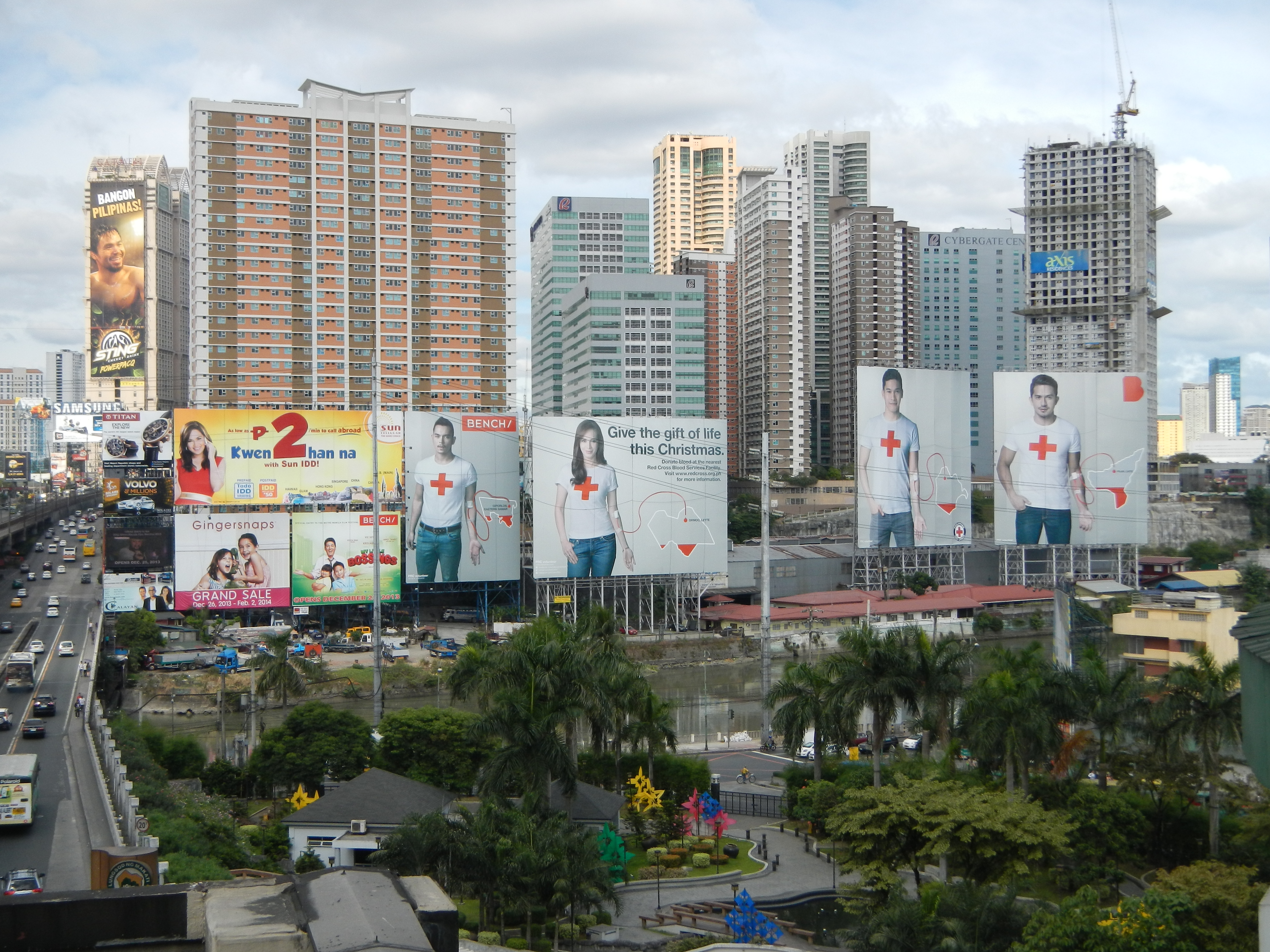 Upload Wizard photos of - Guadalupe MRT Station[1] at Epifanio de los Santos Avenue[2] with the visible Pasig River [3] at Guadalupe Nuevo, Makati City, [4] Philippines and beside the San Carlos Seminary [5] and the Pasig River Ferry Service[6] including the neighbor Mandaluyong[7] City.